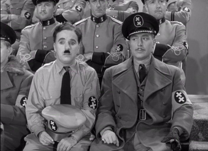 Charlie Chaplin from the end of film The Great Dictator (1940).